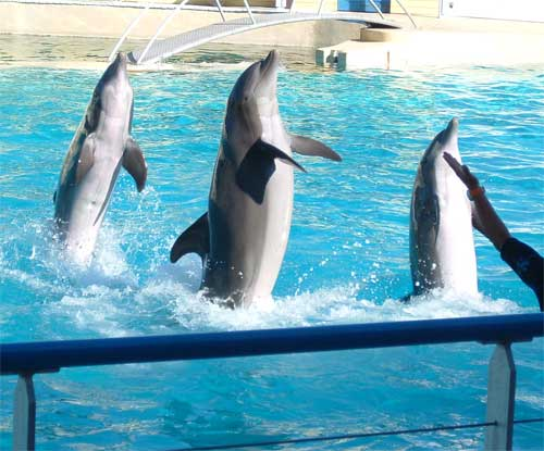 Dolphin intelligence. This is an incredible example of their ability to learn complex moves.